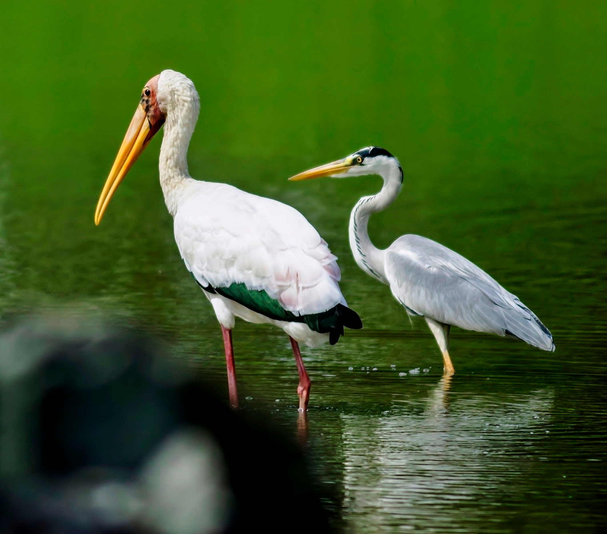 Milky Stork (Mycteria cinerea) and a Gery Heron (Ardea cinerea) in a pond whereby fishes are plenty at the Japanese Garden, Jurong Lake, Singapore